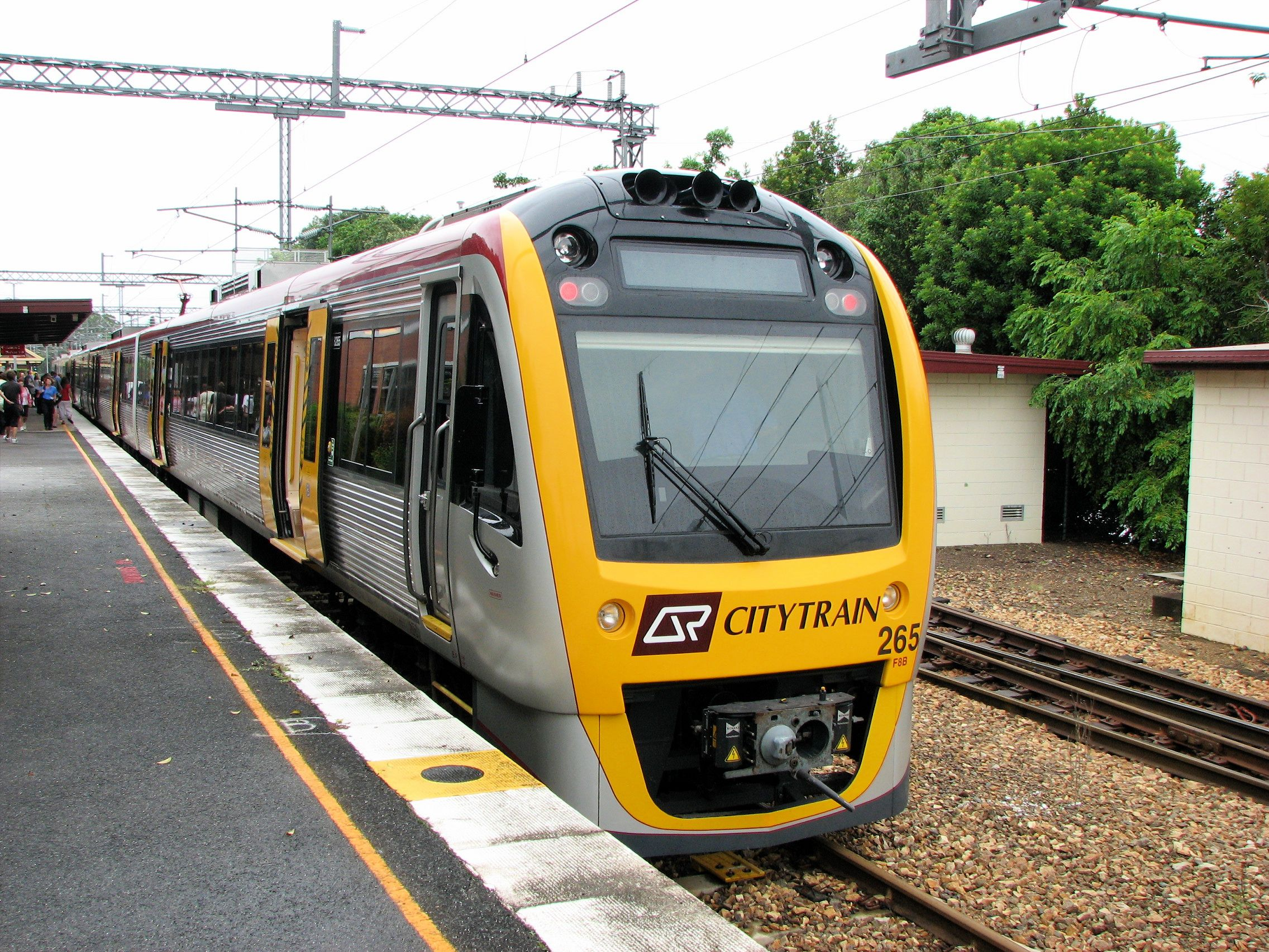 QRPassenger Suburban Multiple Unit 265 @ Nambour Station